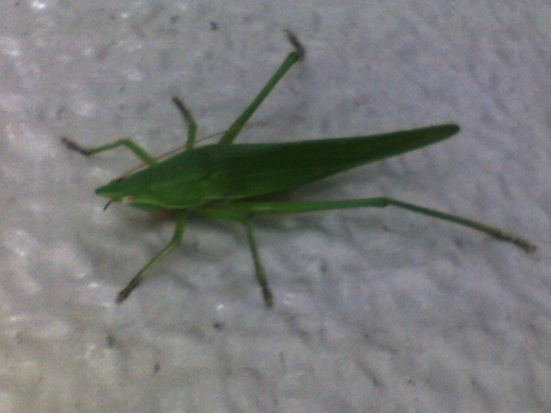 Euconocephalus thunbergi